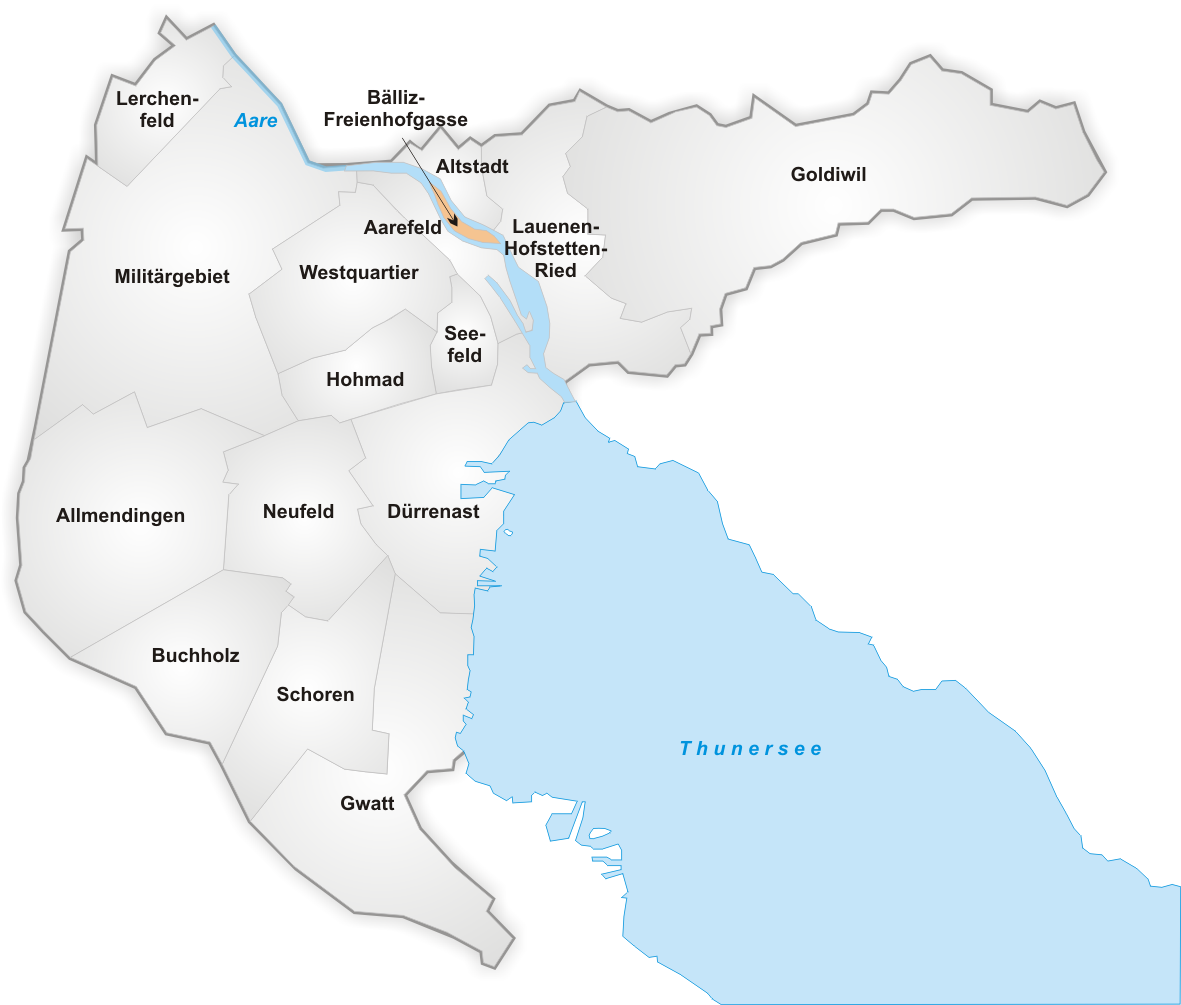 Thuner Quarter Bälliz-Freienhofgasse